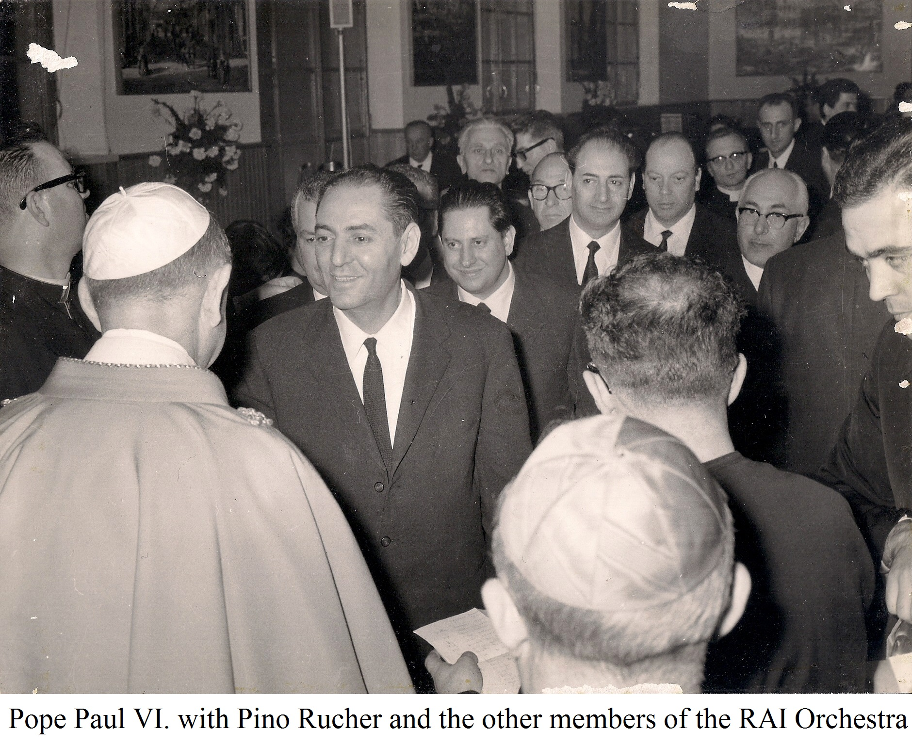 Pope Paul VI. with Pino Rucher and the other members of the RAI Orchestra while receiving a medal for the production Sorella Radio